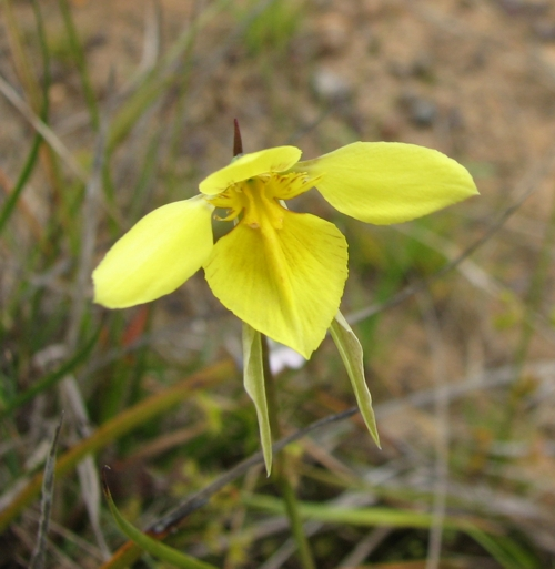 Diuris behrii, Illabarook Grasslands, Victoria, Australia